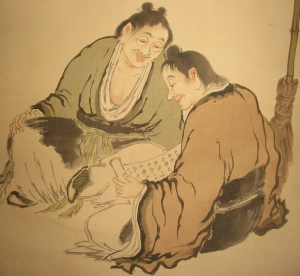 Kokkan Otake: "Kanzan and Jyuttoku", a symbolic theme of the Zen art.